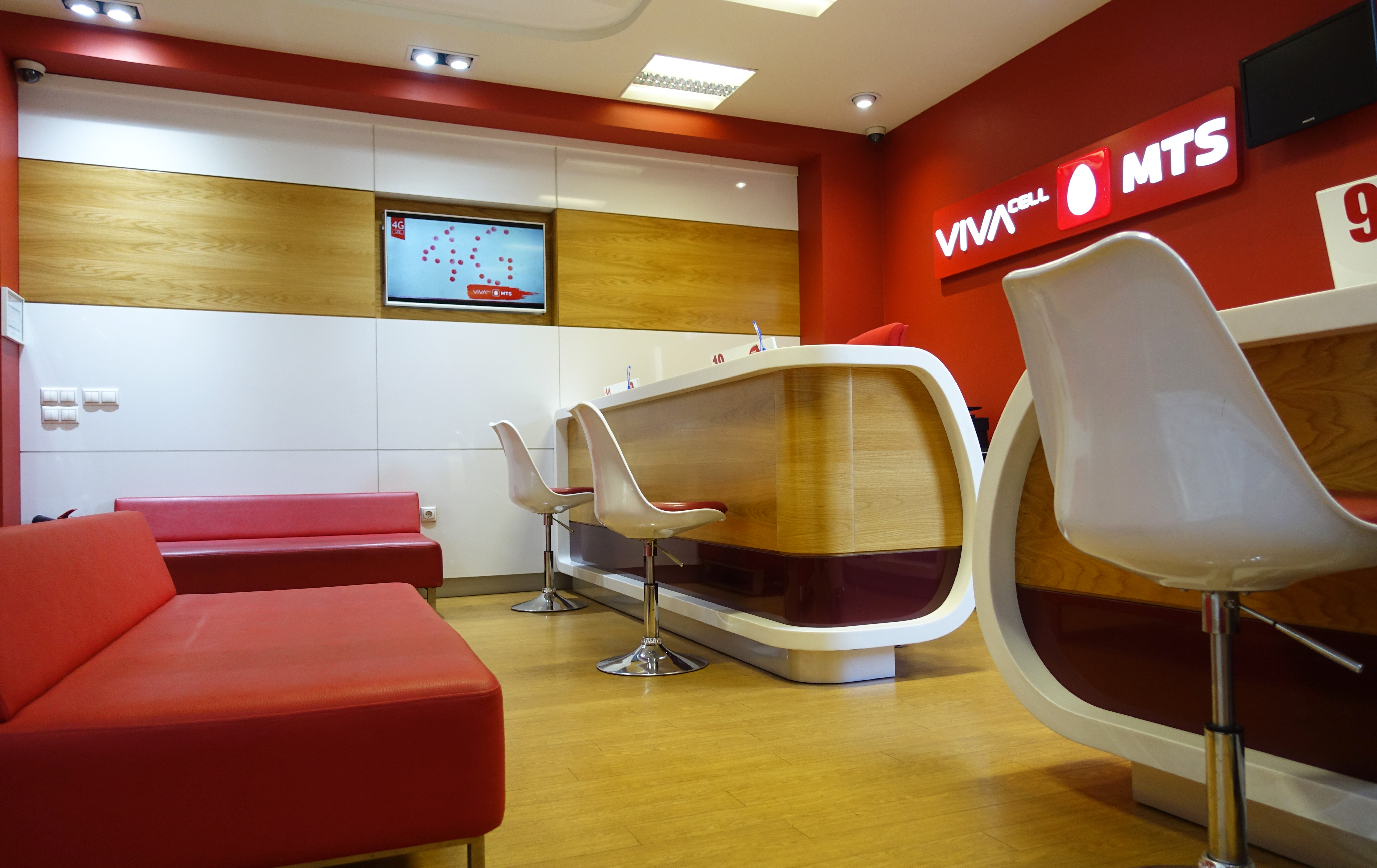 VivaCell MTS office in Yerevan, Armenia.